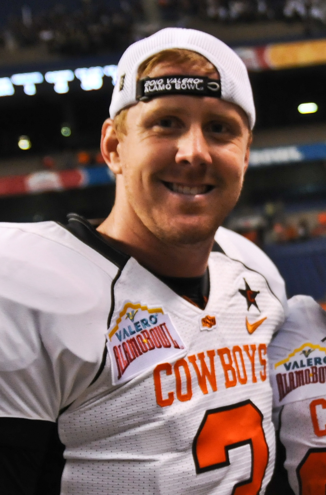 Quarterback Brandon Weeden (cropped)